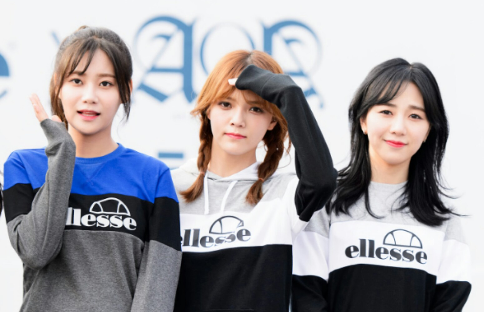 AOA during the event fansign of Ellese on April 8, 2016.